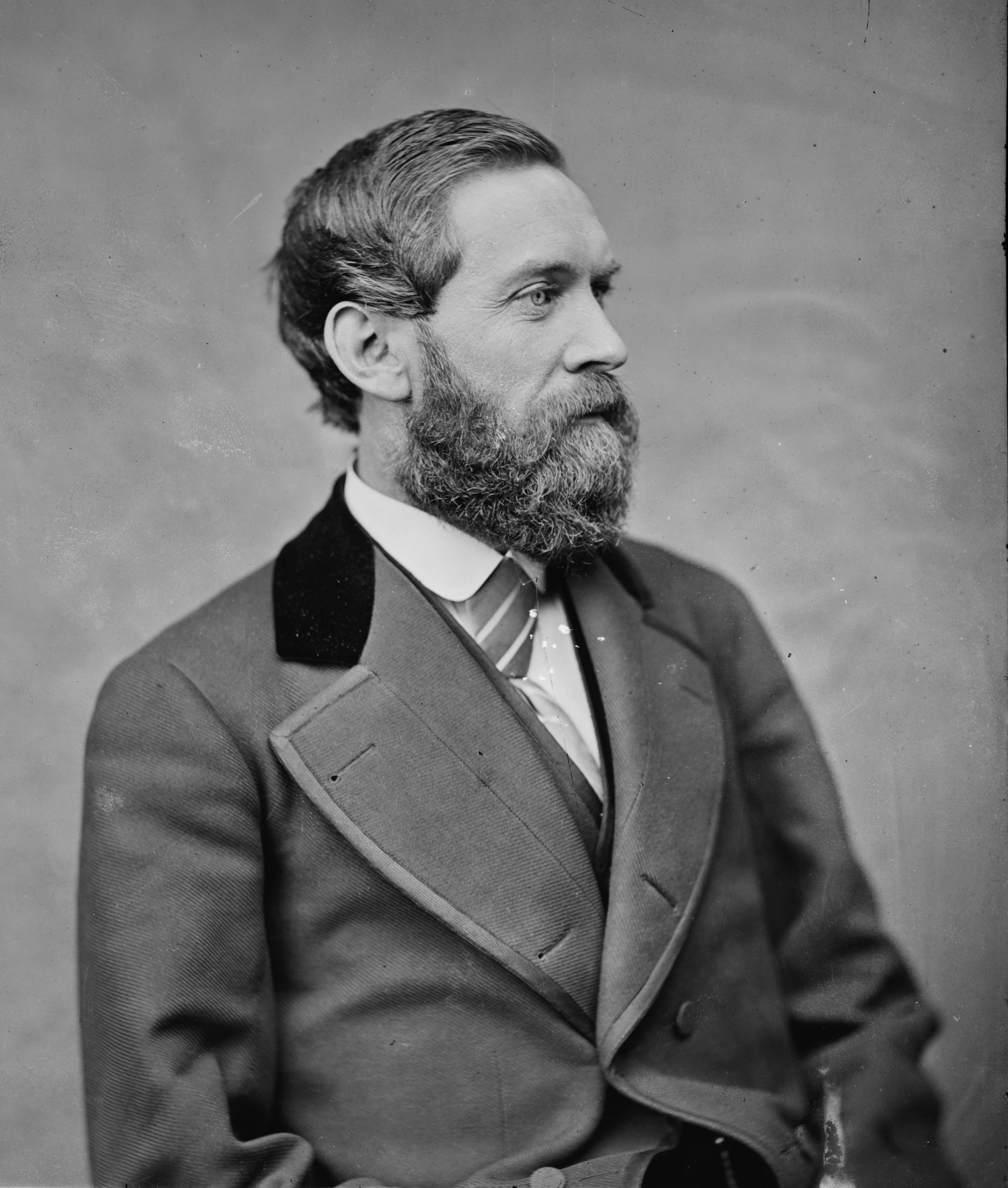 Giles Alexander Smith. Library of Congress description: "Gen. Giles A. Smith, U.S.A."